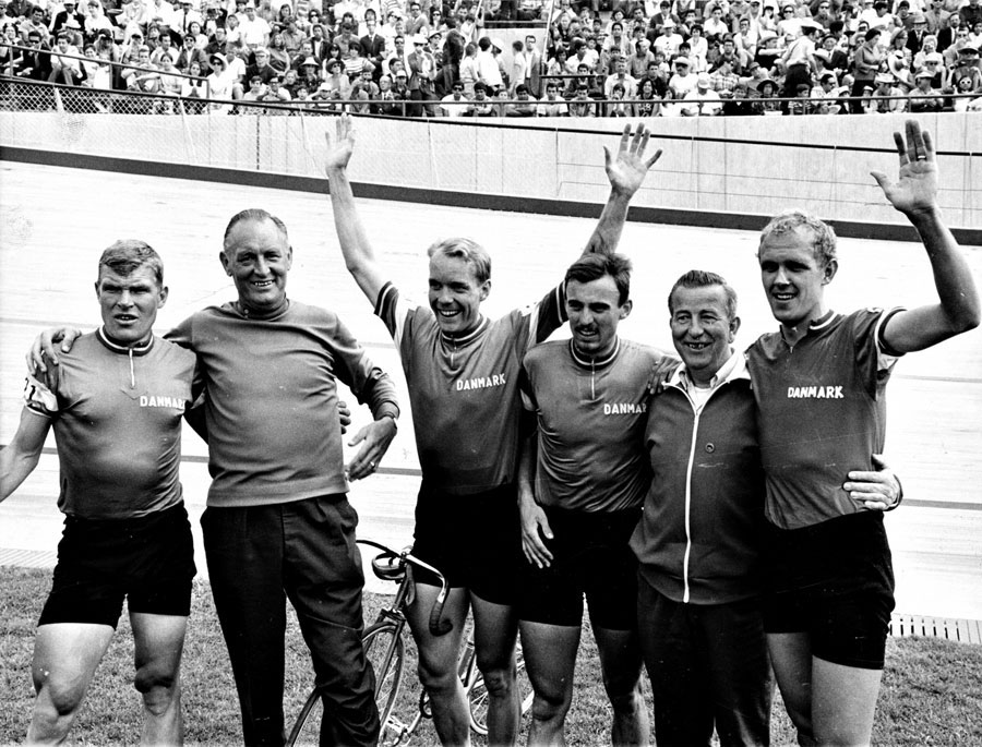 Left-right: Mogens Frey, Per Lyngemark, Reno Olsen, Gunnar Asmussen and coaches at the 1968 Olympics